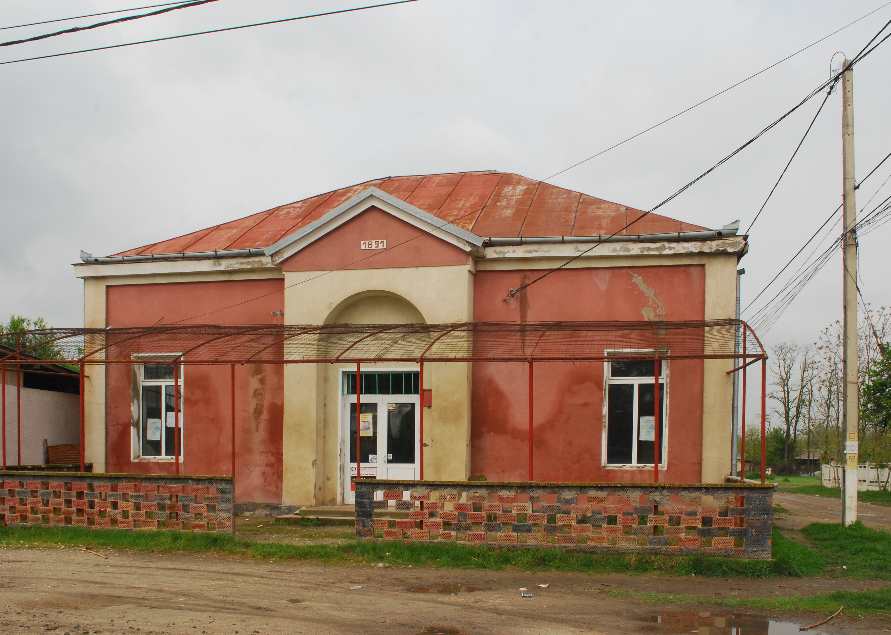 Paraschiv & Iulia Cristescu house with store in Pietroșani, Teleorman County, Romania